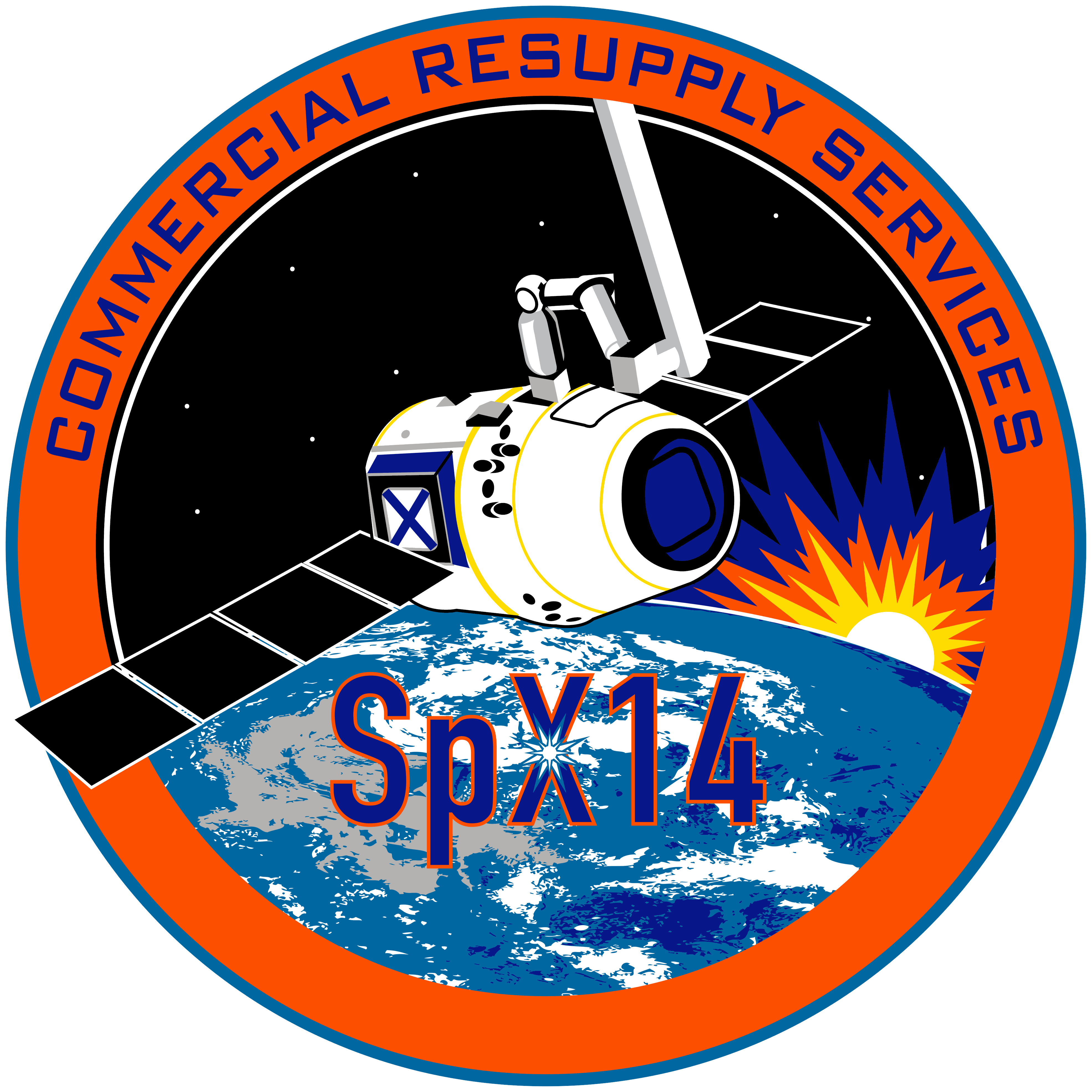 NASA's insignia for SpaceX's 14th Commercial Resupply Services flight to the International Space Station.